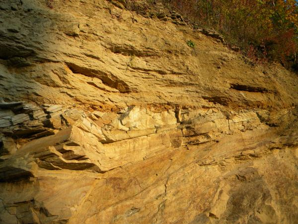 Angular unconformity between Paleozoic paragneiss and Cretaceous sediments (sandstone, coglomerate) in the Prachovna Quarry, Kutna Hora, CZ